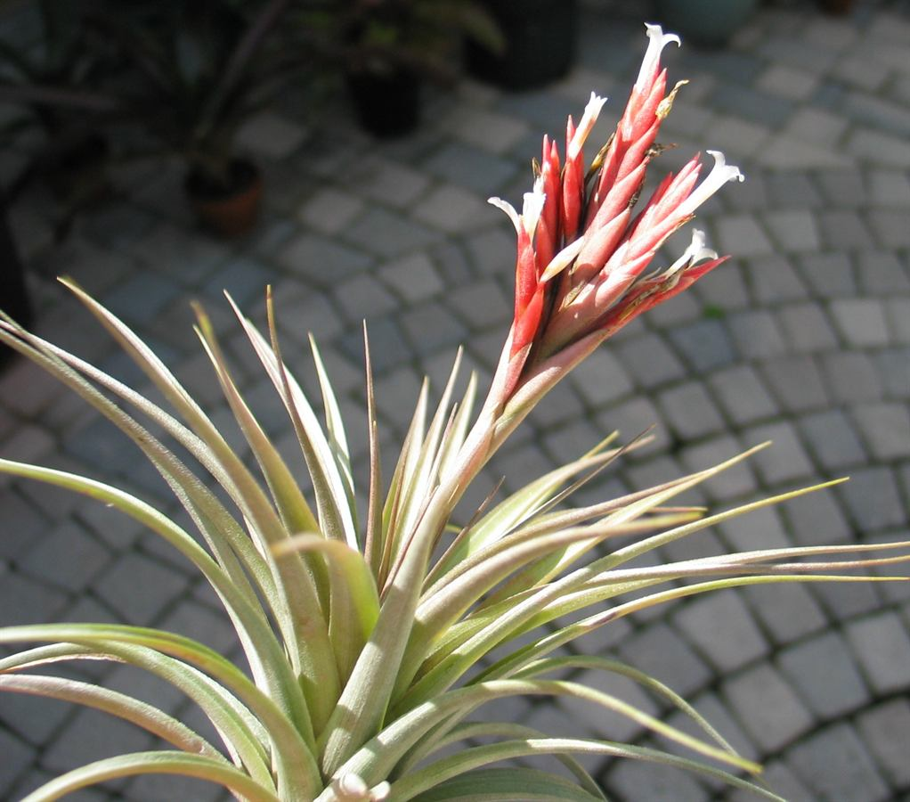 Tillandsia vernicosa with flowers